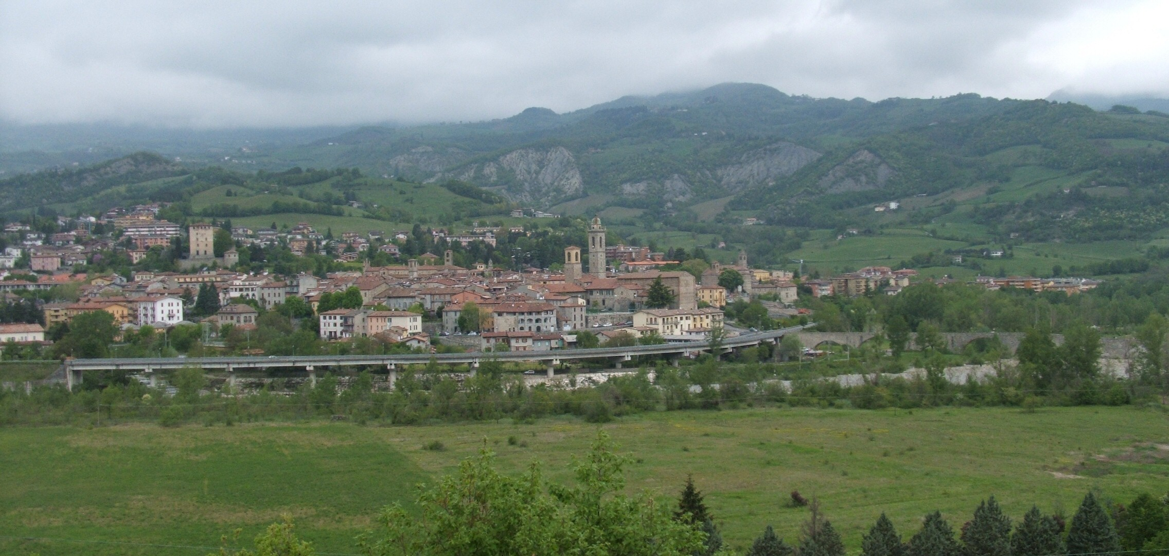 Bobbio (Piacenza) Italy - landscape